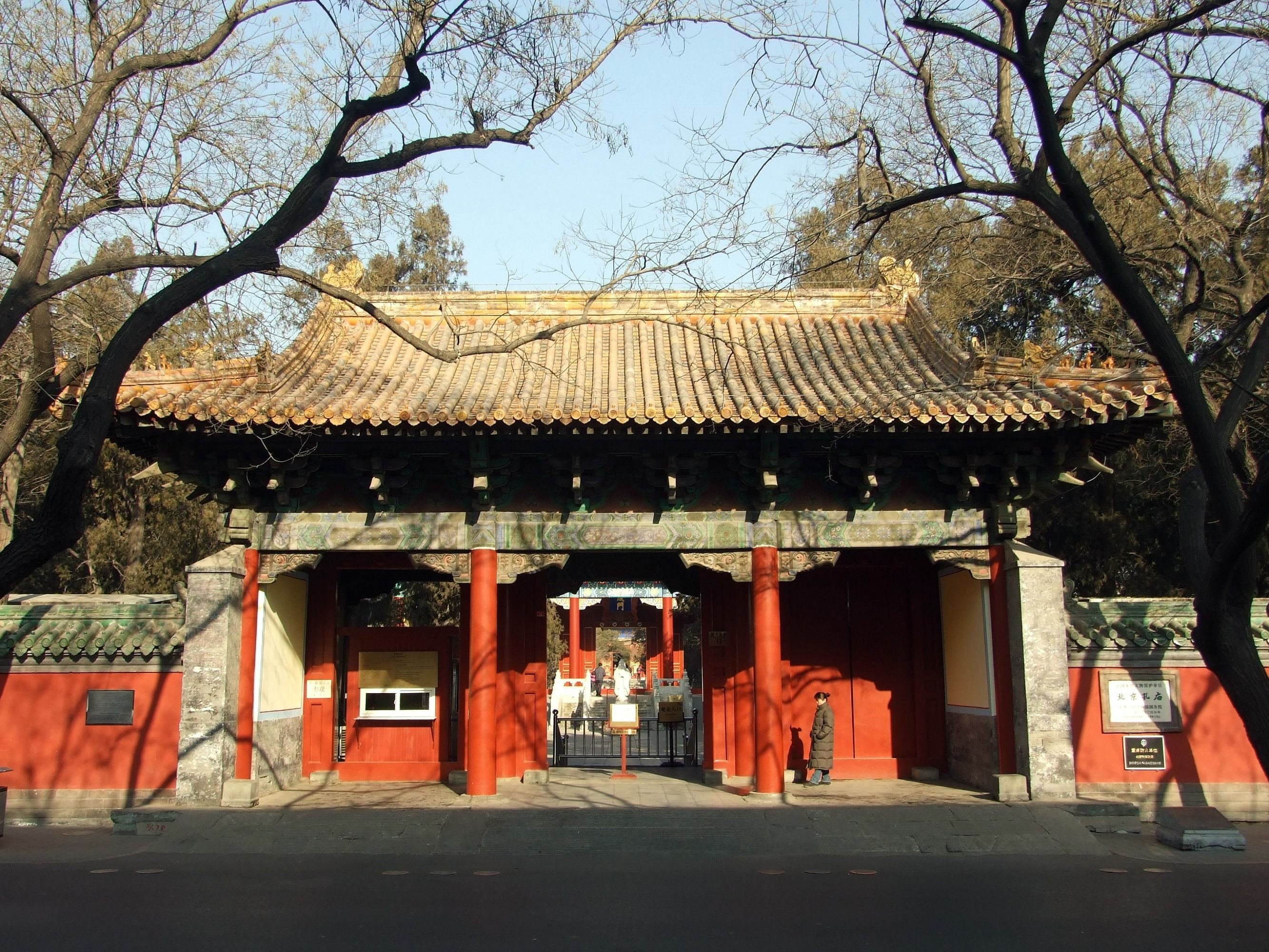 The gate of Beijing Temple of Confucius 中文（中国大陆）: 北京孔庙大门